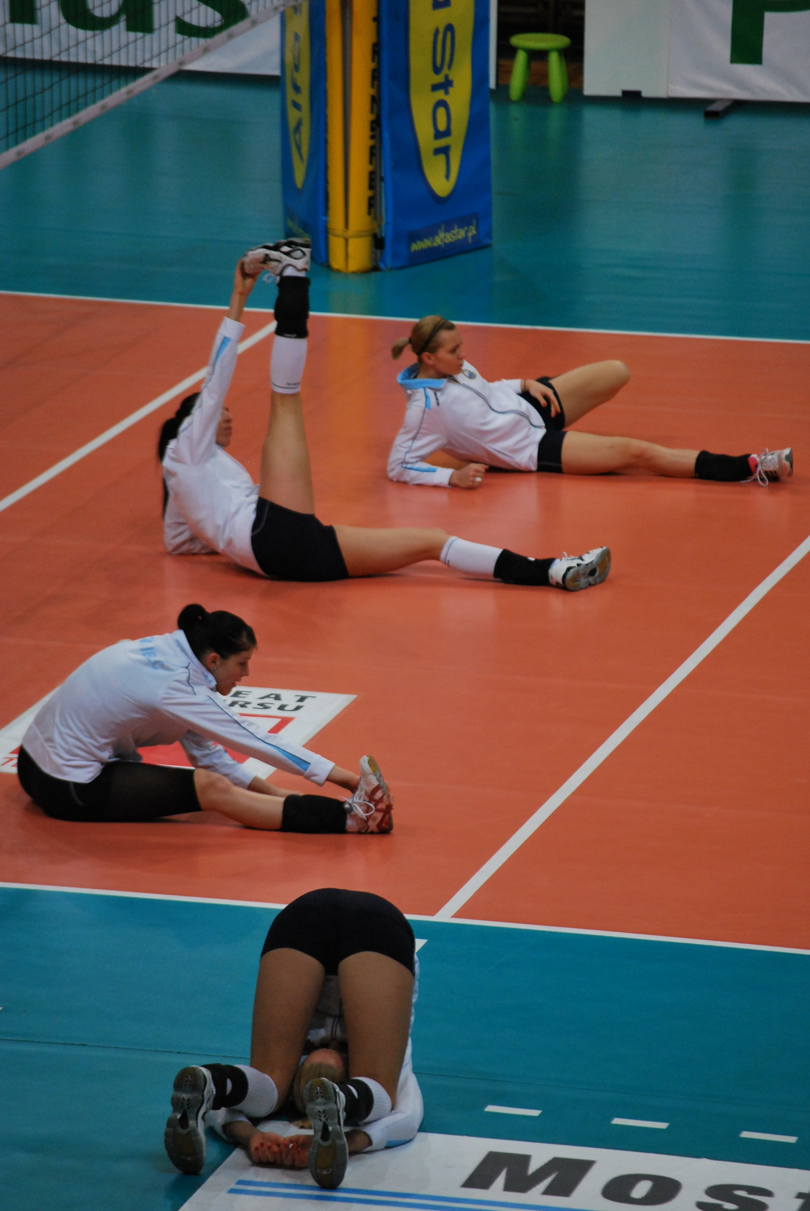 Volleyball match - warming up